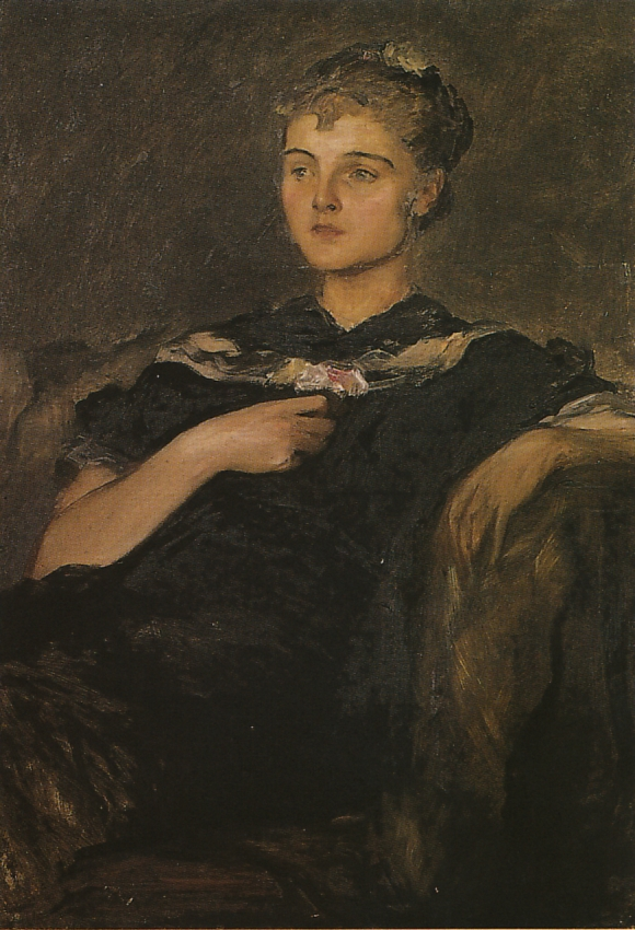 Miss May Miles